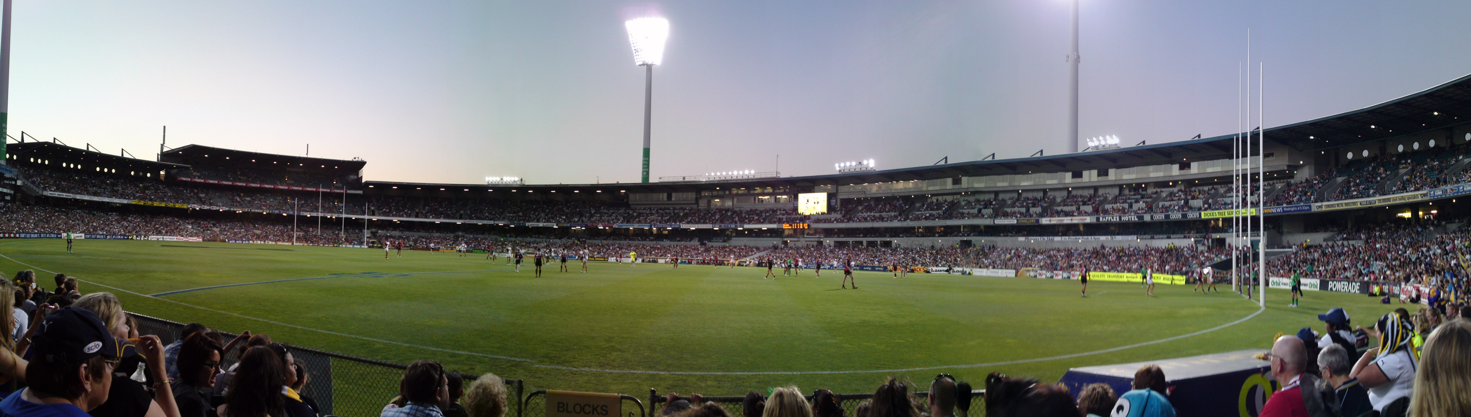 Subiaco Oval panorama - West Coast v Essedon NAB Cup 2010